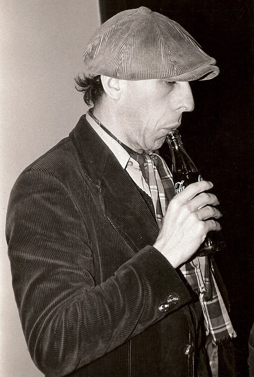 Jiří Stivín (1978), Czech flute player and composer